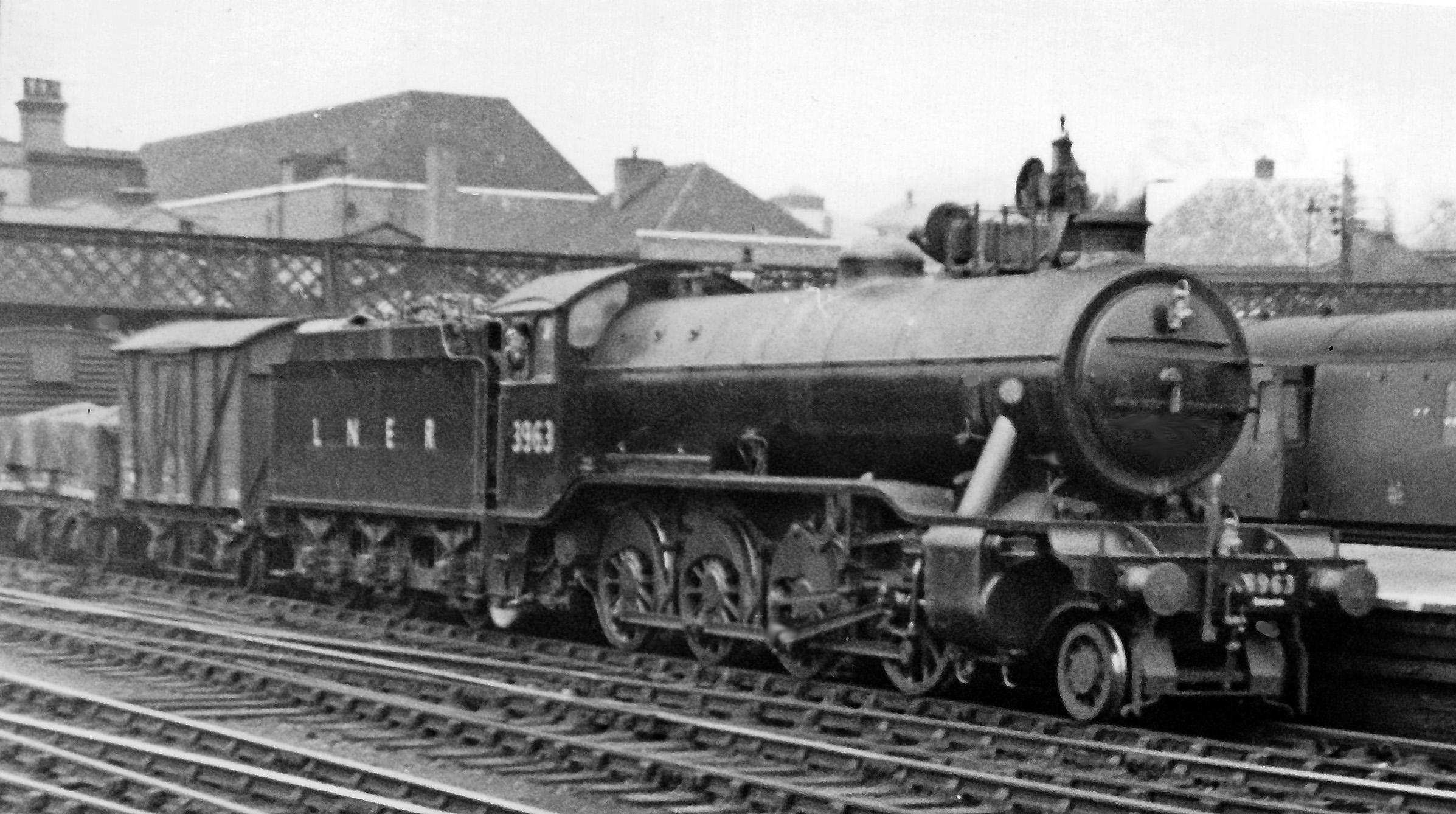 Up freight train at Doncaster station. A pre-Nationalisation scene, with a Class H freight passing on the Platform 3 Up Through line, headed by Class O2/3 2-8-0 No. 3963; this is one of the later batch with side-window cabs, built 5/42 - now seemingly fresh from repair at the 'Plant' Works.